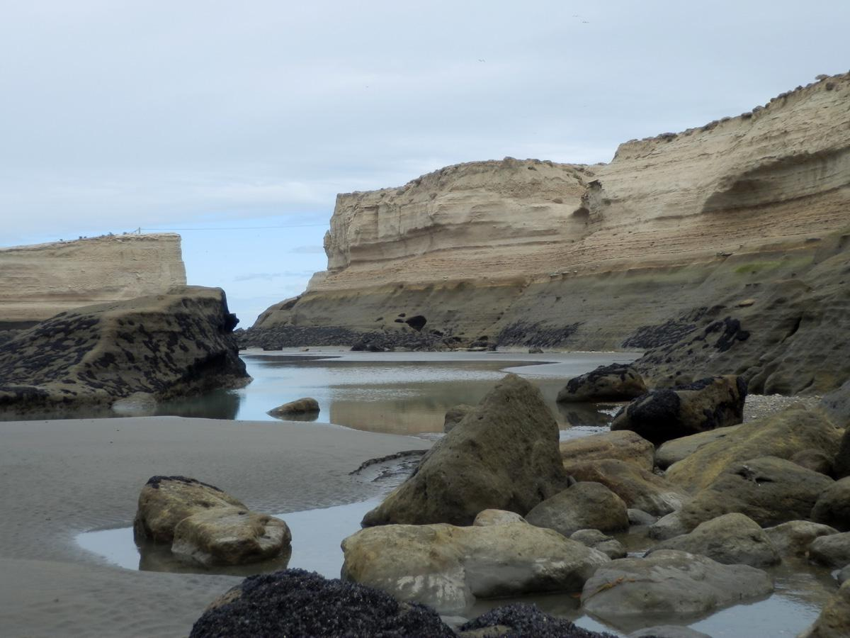 Monte Leon fm. (Oligocene-Miocene), in Monte Leon National Park, Santa Cruz, Argentina. To the left, Monte Leon Island, with former guano exploitation.